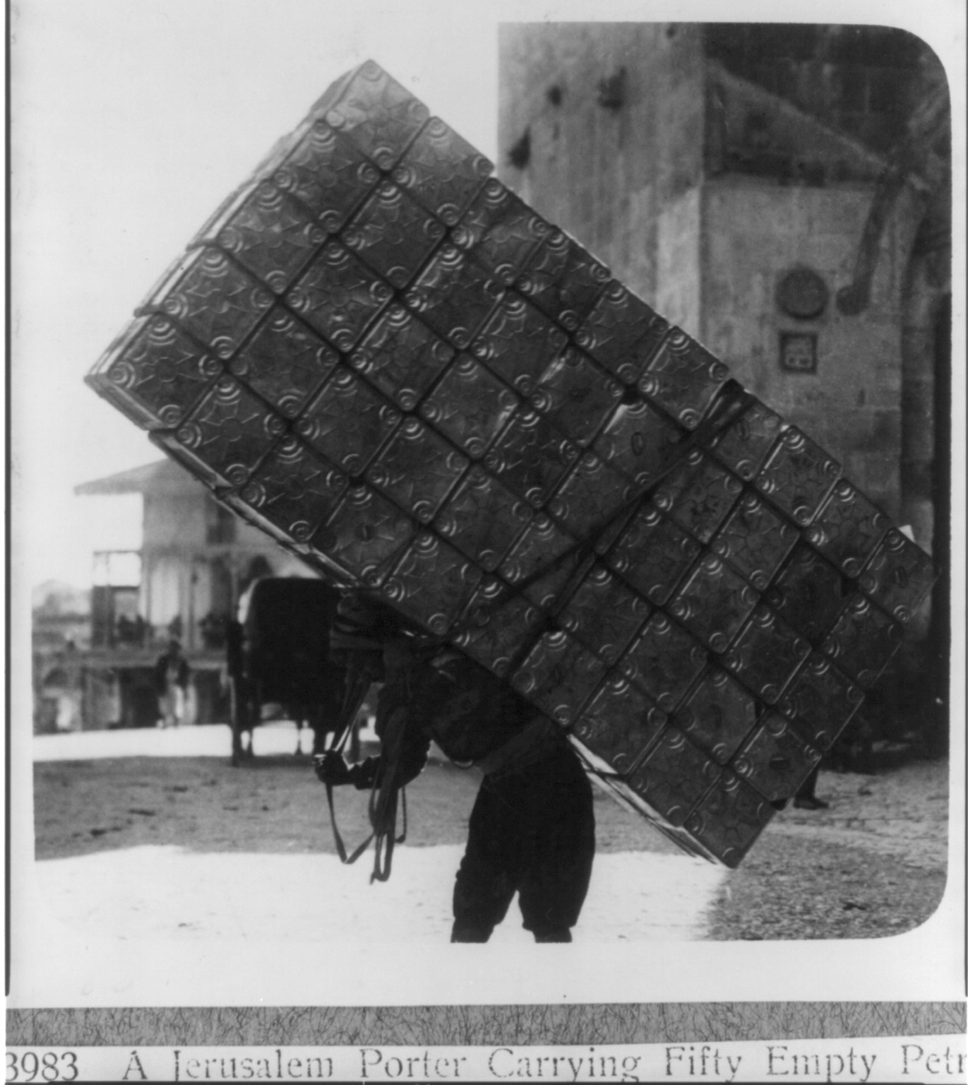 Title: A Jerusalem porter carrying fifty empty petrol tins on his back Abstract/medium: 1 photographic print.